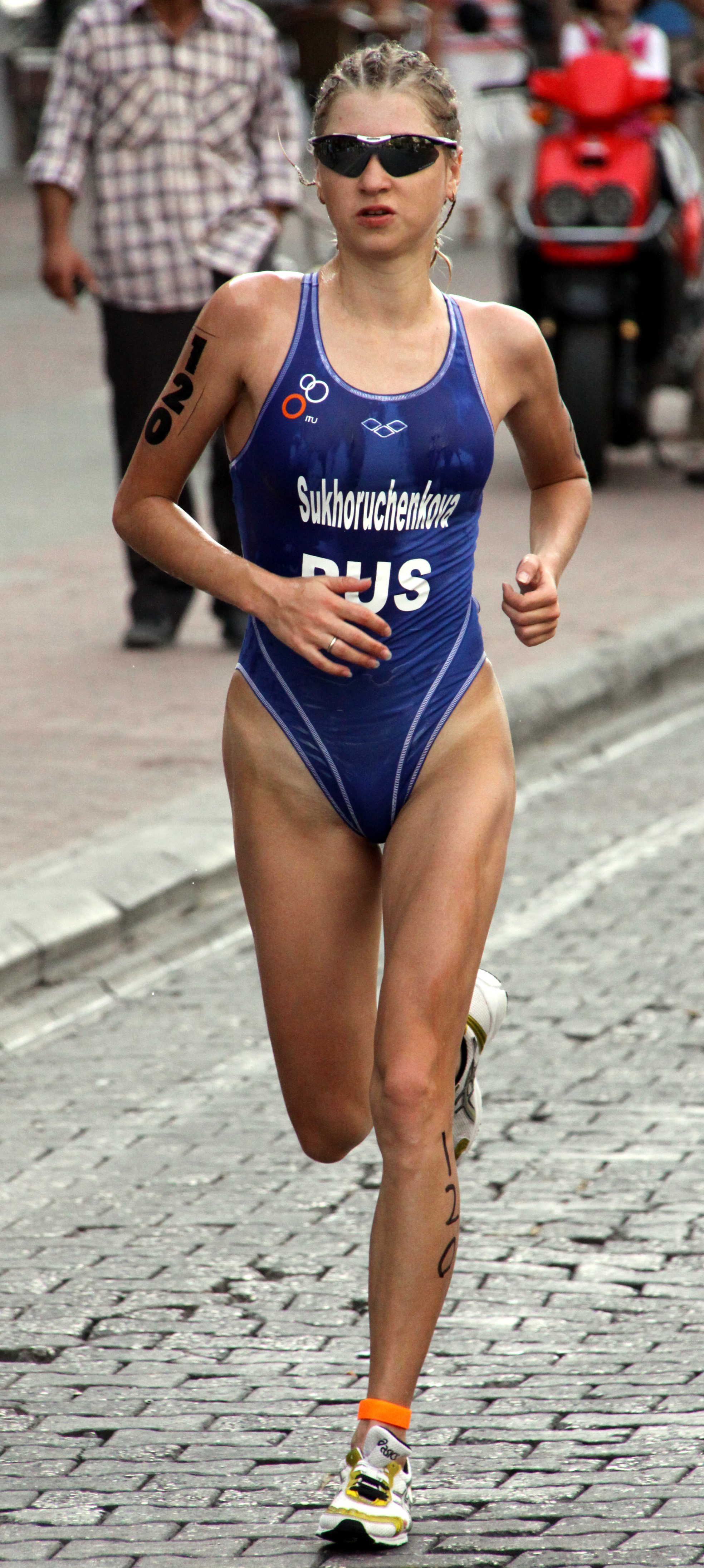 Evgenia Sukhoruchenk Евгения Сергеевна Сухорученкова Кошельникова Triathlon Alanya 2009